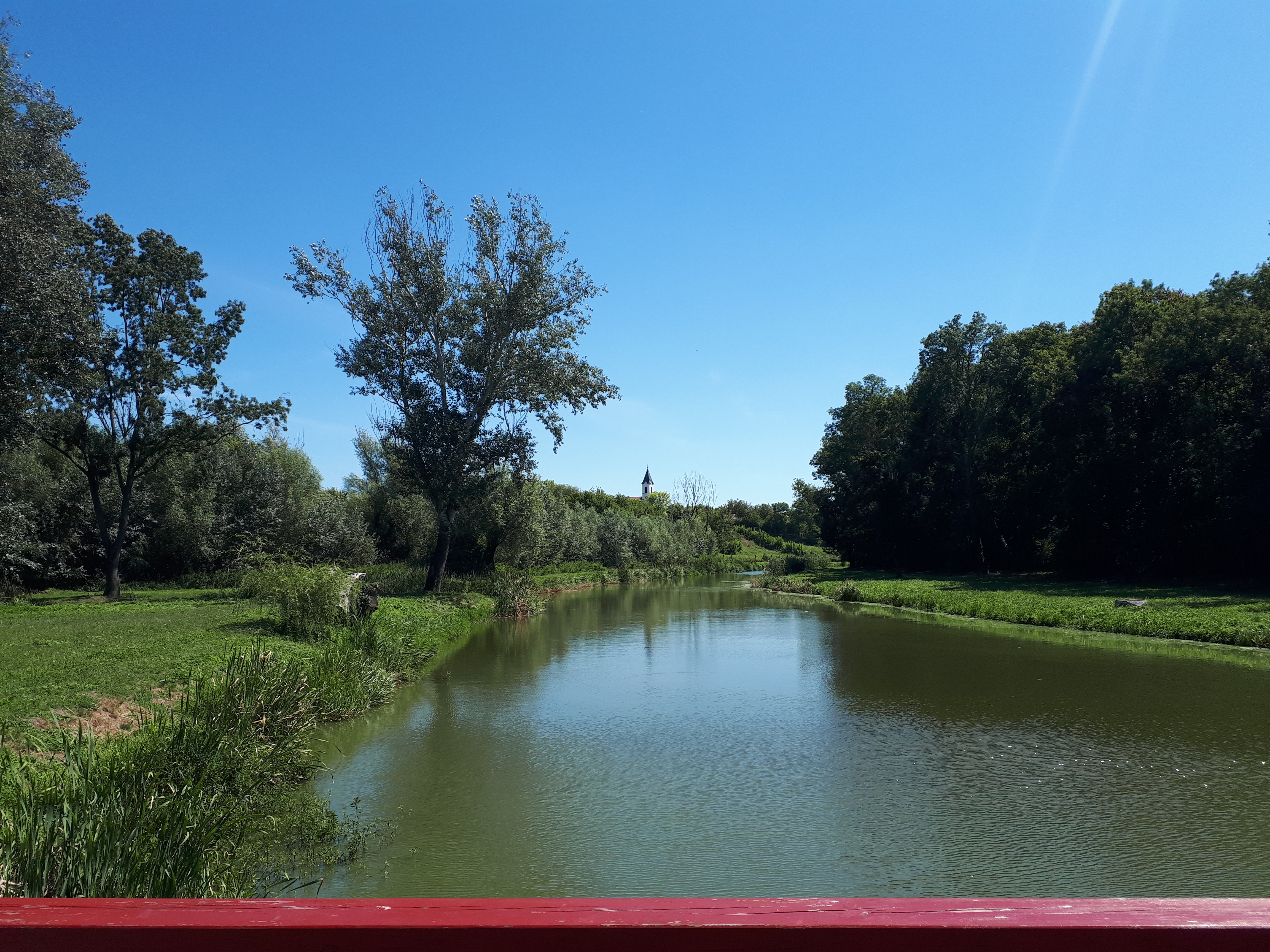 View of the Festetics castle park (Dég, Hungary) from a bridge over the serpentine lake towards the St. Anna church.